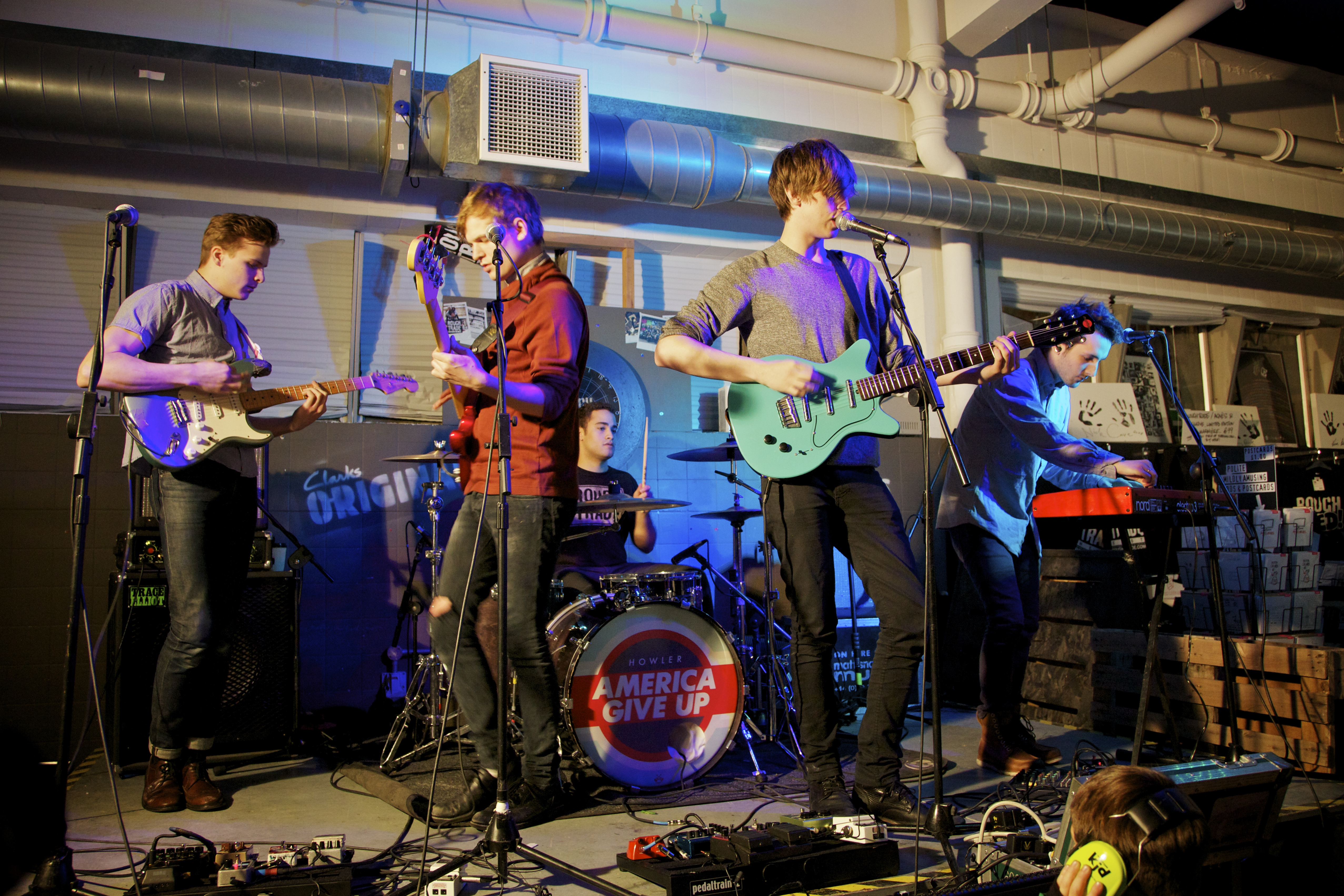 Howler performing at Rough Trade East, Brick Lane, London on 28th January 2012